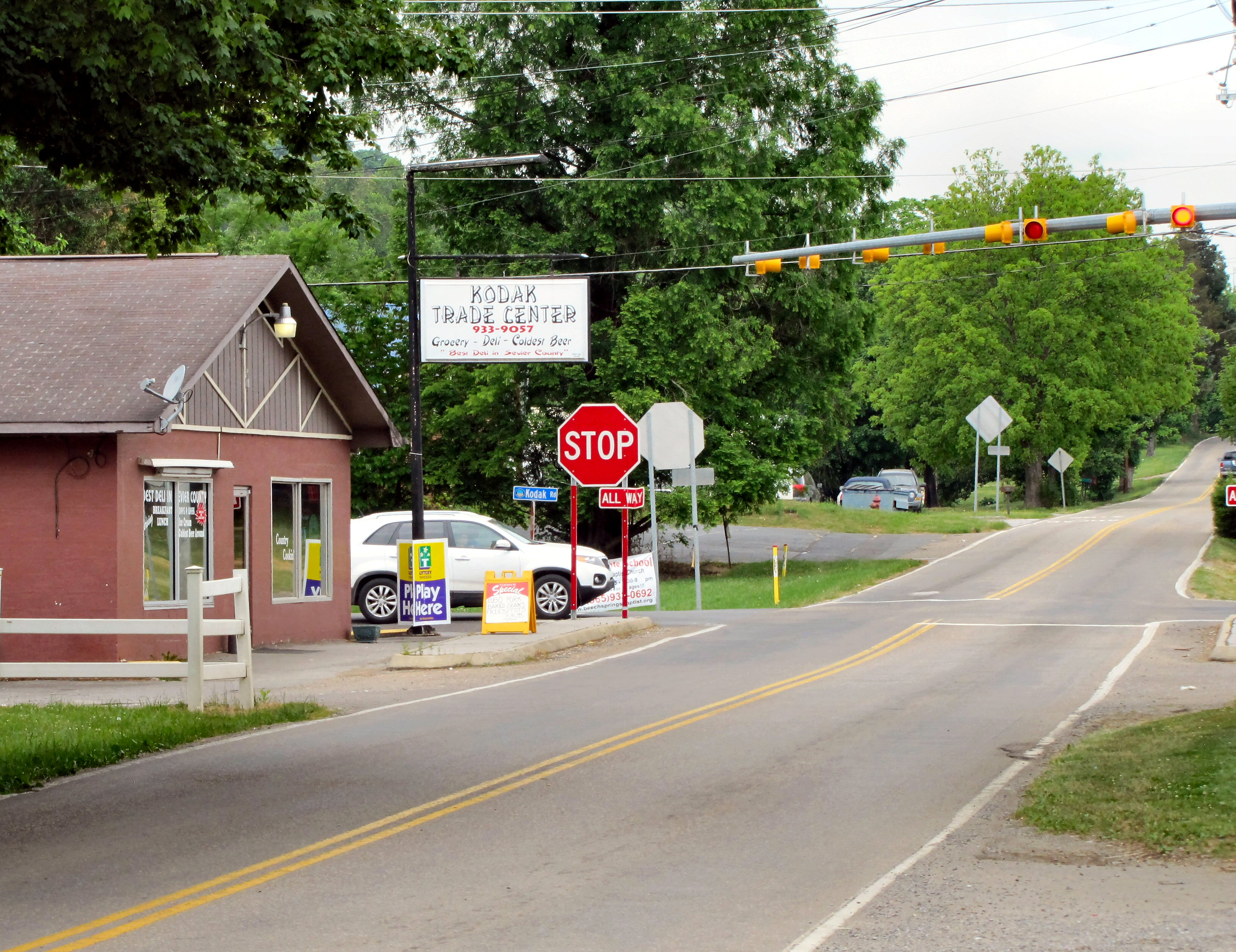 The intersection of Tennessee State Highway 139 and Kodak Road in Kodak, Tennessee, United States. The Kodak Trade Center is on the left.